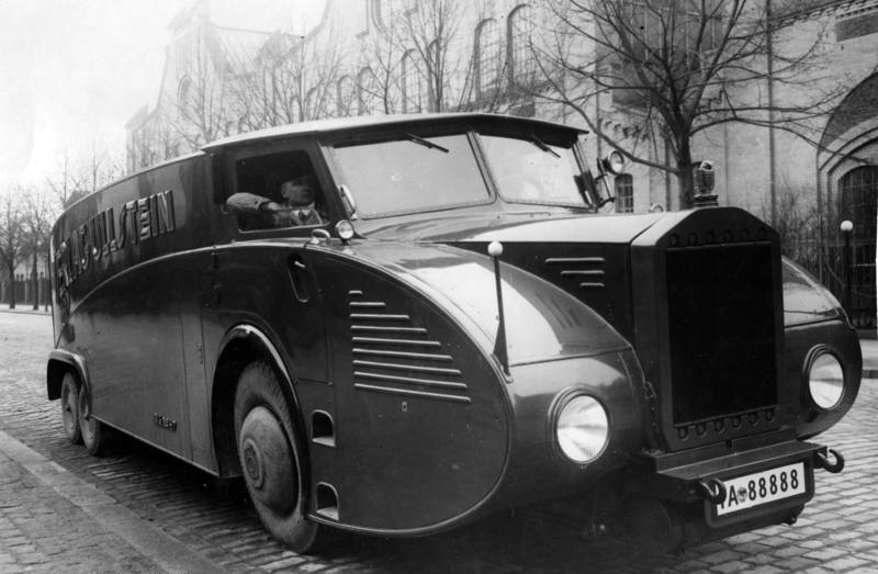 Berlin, Verlag Ullstein newspaper's car A fast newspaper delivery van of the "Ullstein" newspaper house. Used for rapid delivery of the newspaper Berliner Zeitung. This car has a 100 hp Maybach engine and with 5000 kg cargo can reach a speed of 80 kilometers per hour. "A masterpiece of German art of body manufacture was undoubtedly the sensational newspaper carrier on a Rumpler chassis that was designed as well by Luchterhand & Freytag. With 100 kilometers per hour, the vehicle sped the route Berlin–Magdeburg–Dessau–Berlin, starting in 1931." Source: Automobiles from Berlin, U. Kubisch / Museum of Transport and Technology Berlin, Nicolai verlag, 1985, S.158f. (Picture double page) + S.162/164 (text), ISBN 3-87584-155-7 Based on auto-translation